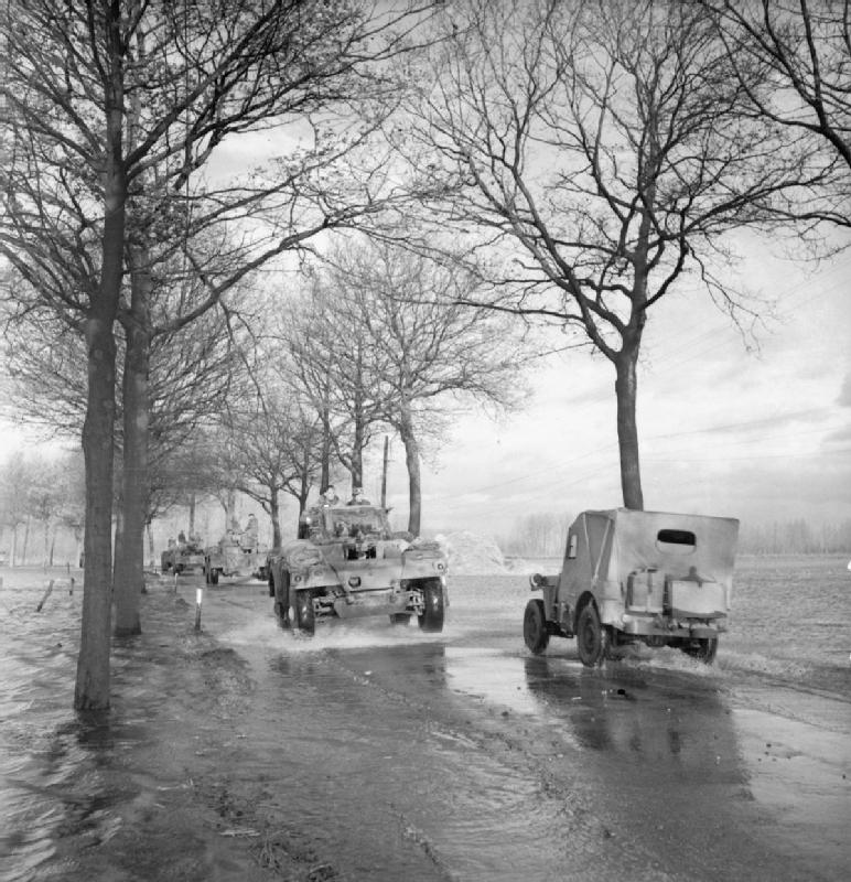 The British Army in North-west Europe 1944-45 Daimler armoured cars and a jeep negotiate a flooded road in Holland, 26 November 1944.